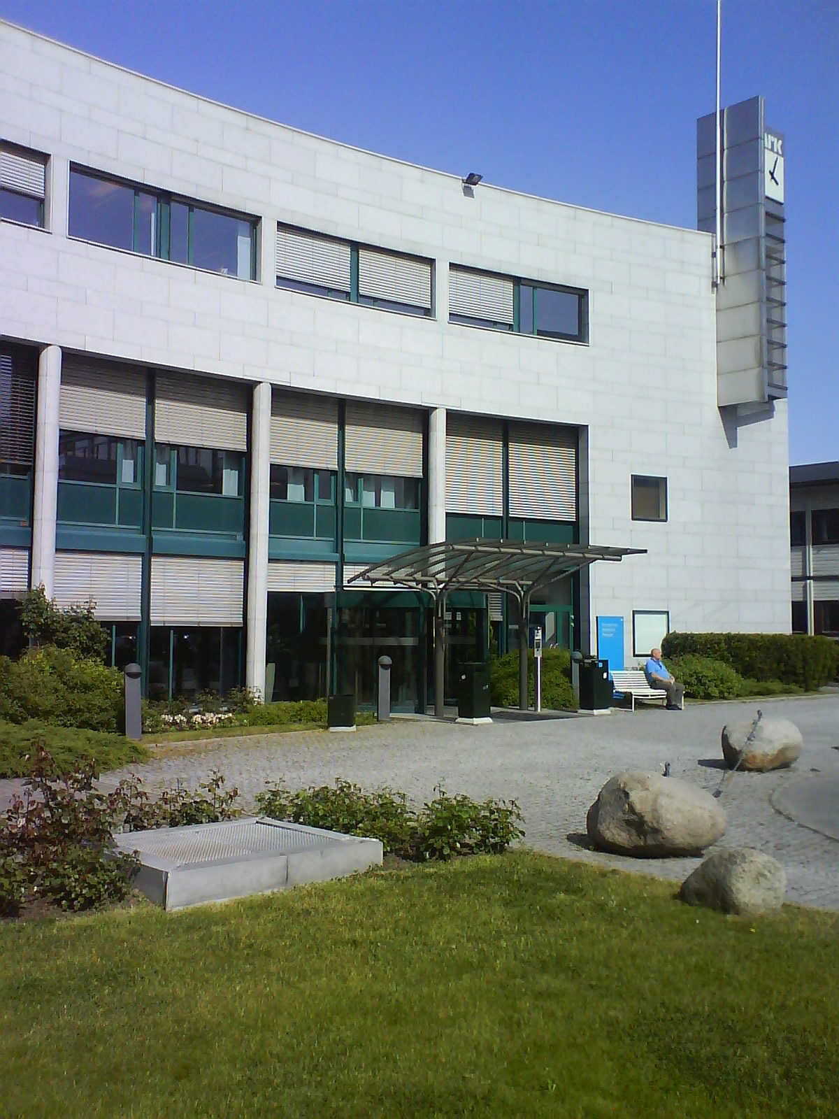 Fjernsynshuset, NRK Marienlyst